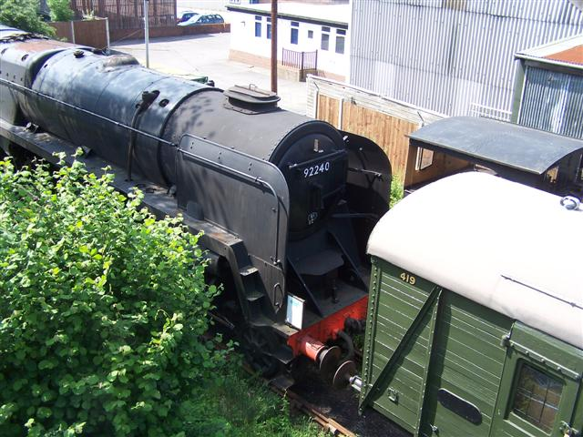 9F 92240 at Sheffield Park